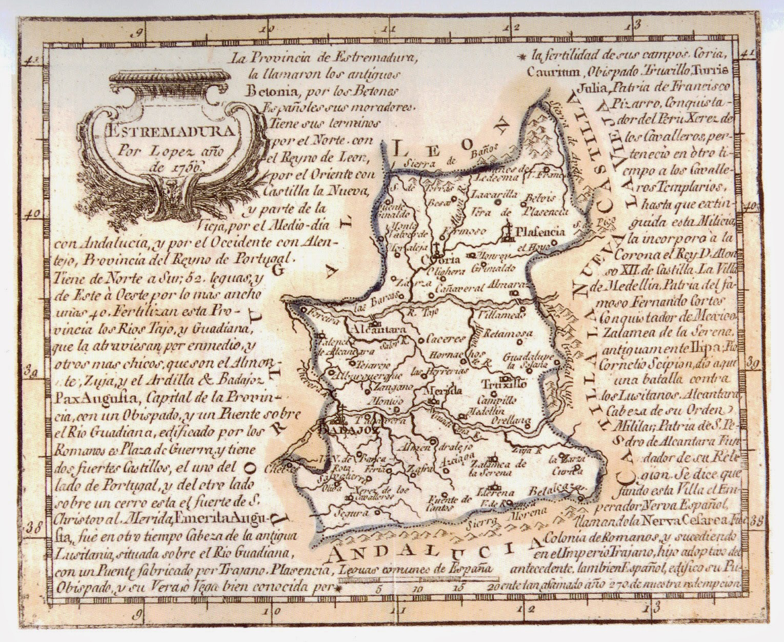 Map of Extremadura